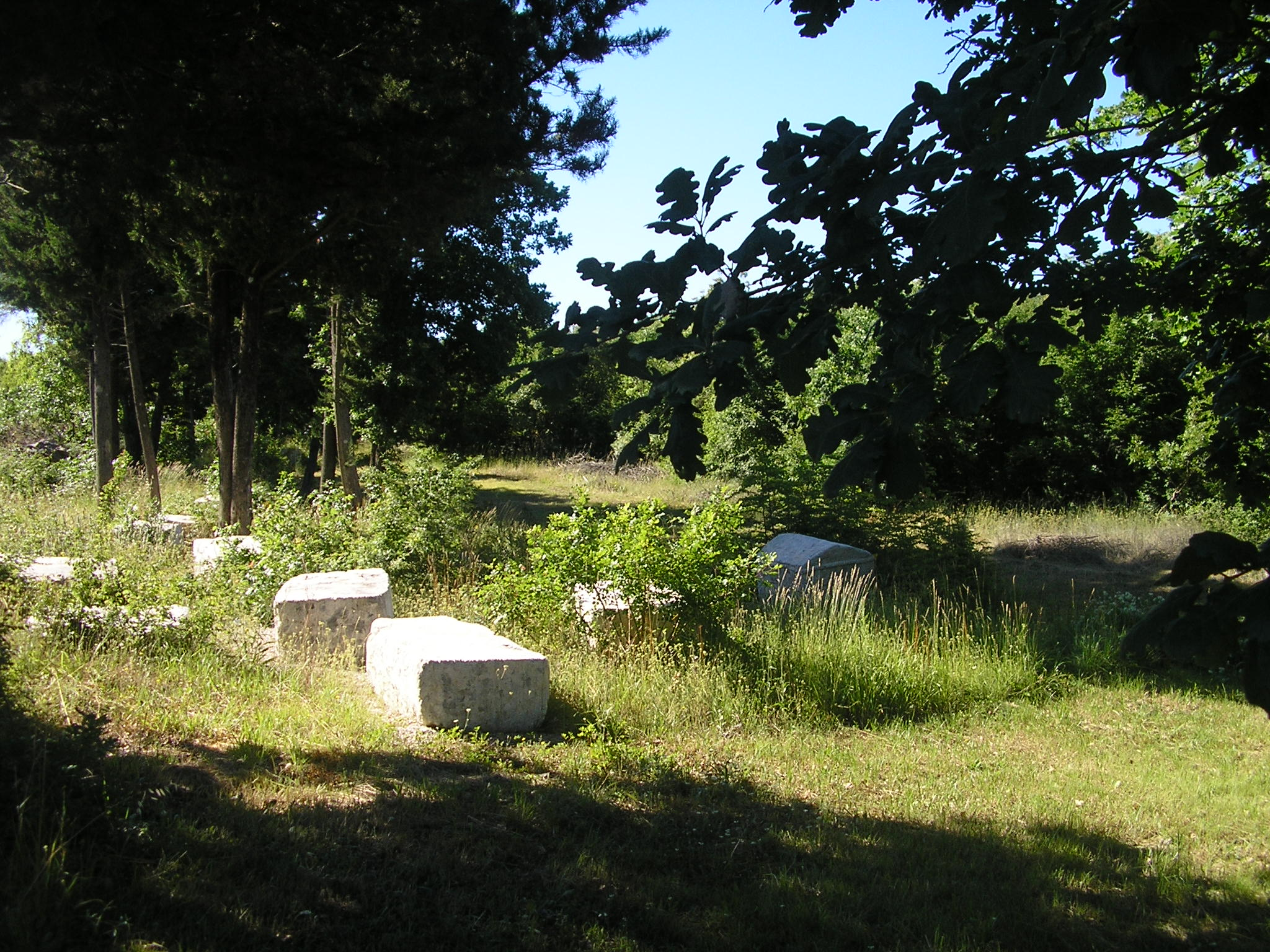 Bijača necropolis